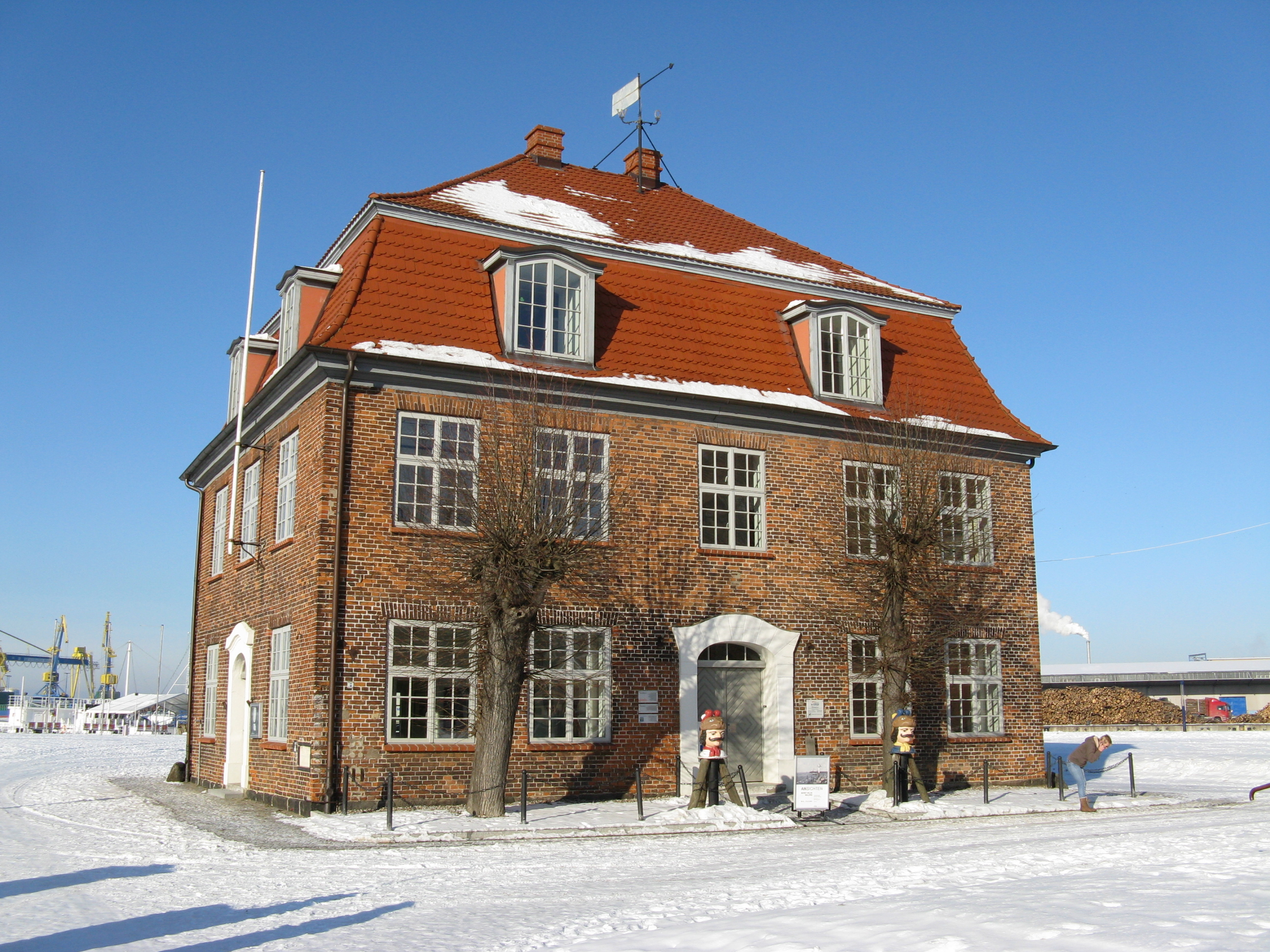 Baumhaus in the old harbour in Wismar, Mecklenburg-Vorpommern, Germany